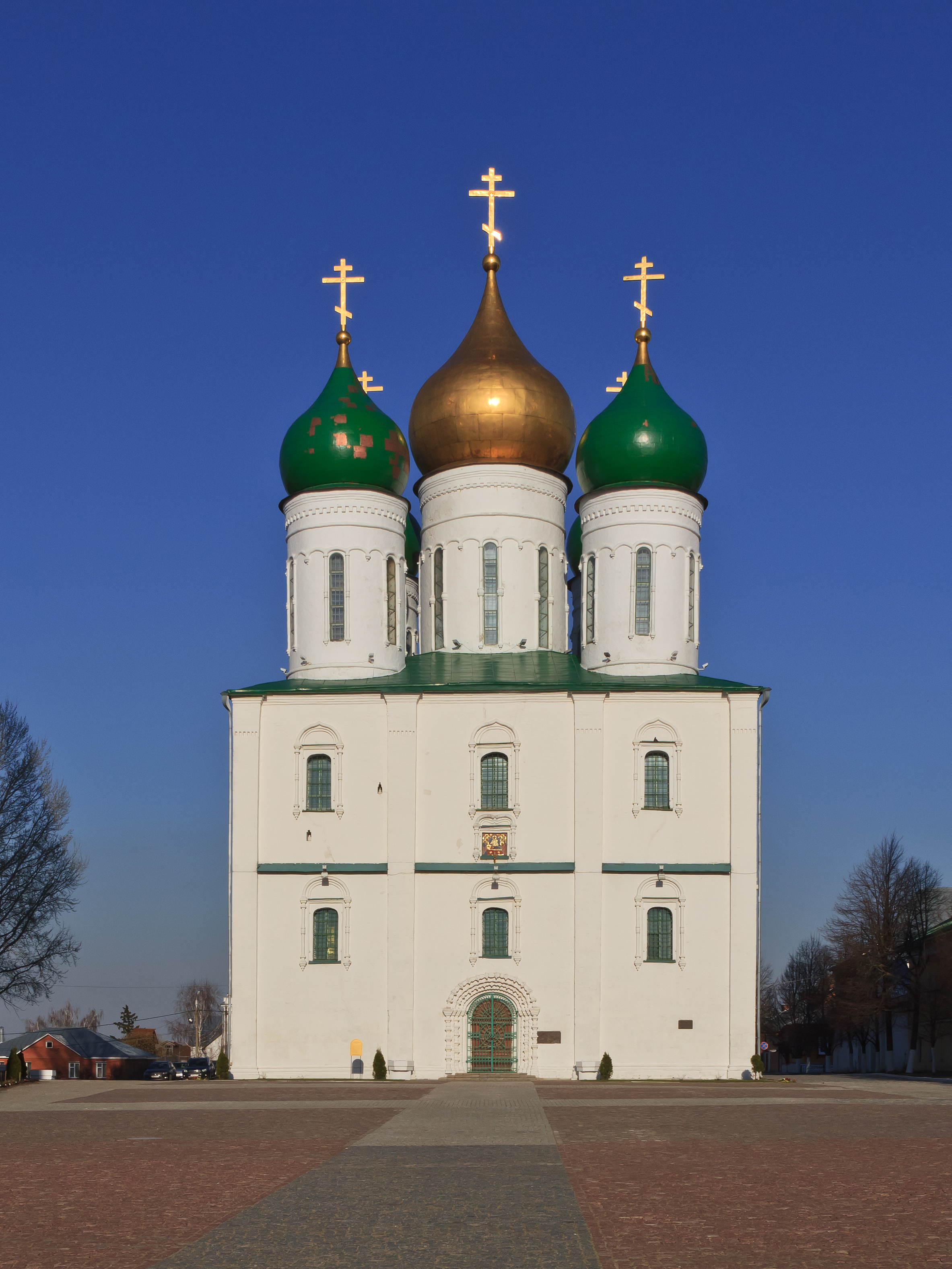 Assumption Cathedral in the Kolomna Kremlin. Kolomna, Moscow Oblast, Russia.